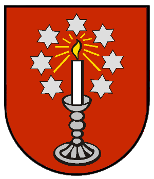 Coat of arms of Knittlingen